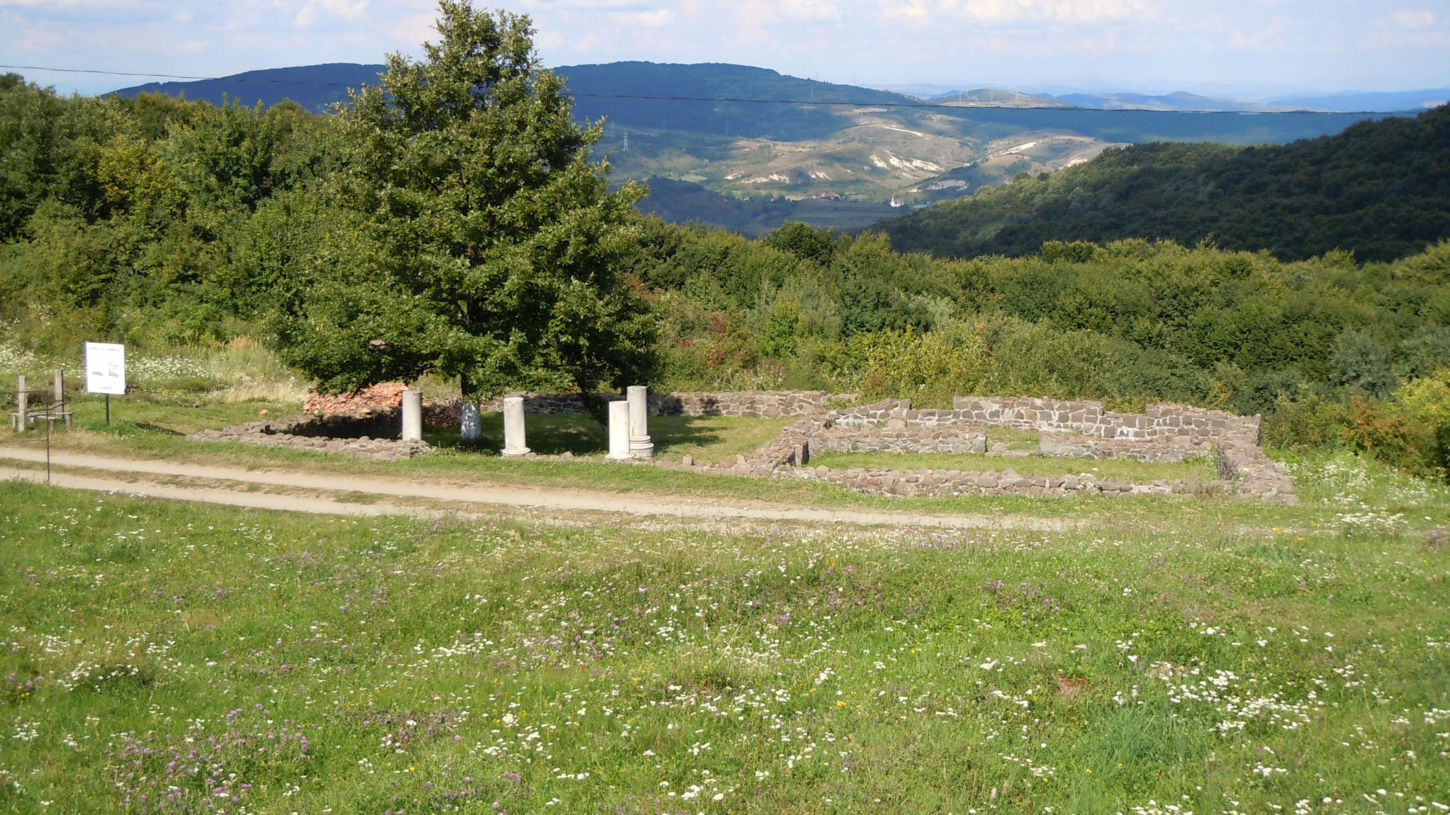 Jupiter's Temple of Porolissum 05